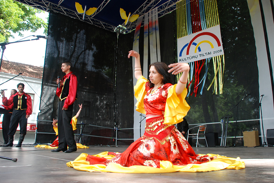 Festival of Lithuania's nations "Bridges of Culture 2009". Roma ensemble "Romany Jagory".